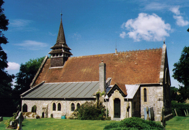 St Lawrence's parish church, Weston Patrick, Hampshire, seen from the southeast